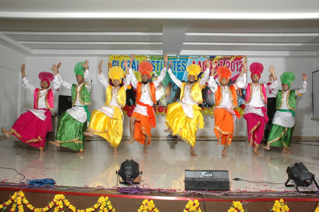 Bhangra at Global Institutes, Amrtisar